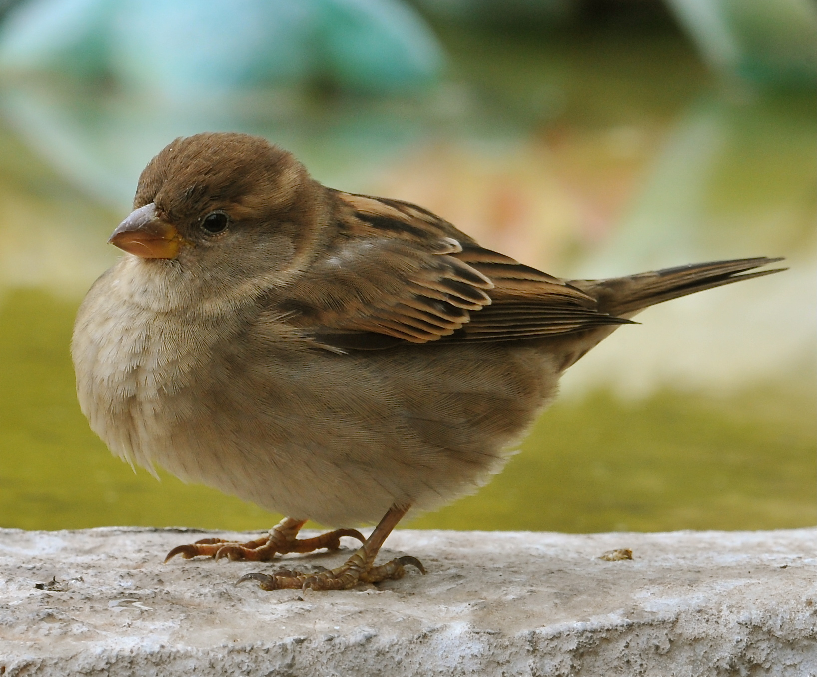 Female Italian Sparrow